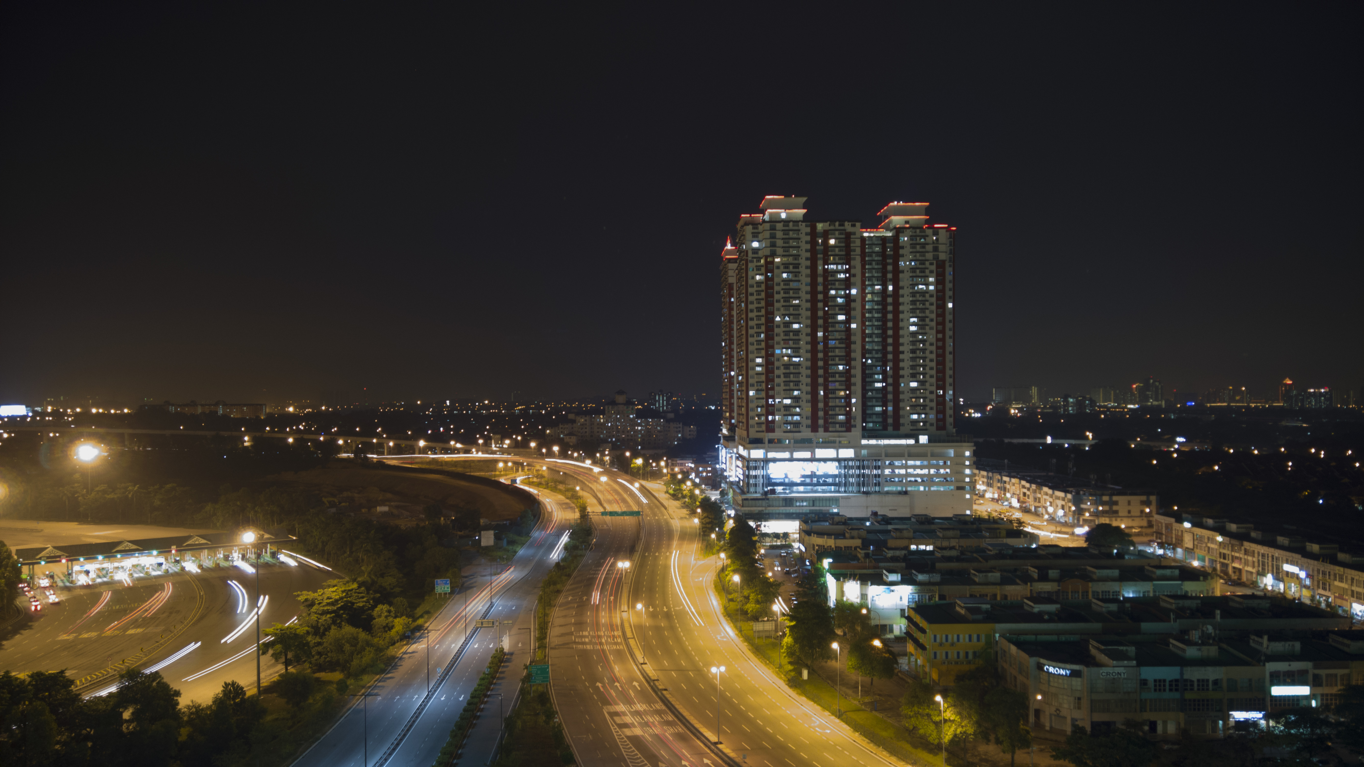 Lebuhraya Damansara Puchong USJ Terminus, view from OneCIty USJ